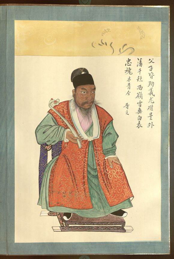 Mu Wang, a local commander of Lijiang